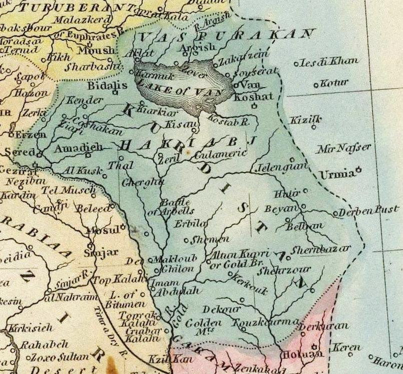 Turkey in Asia